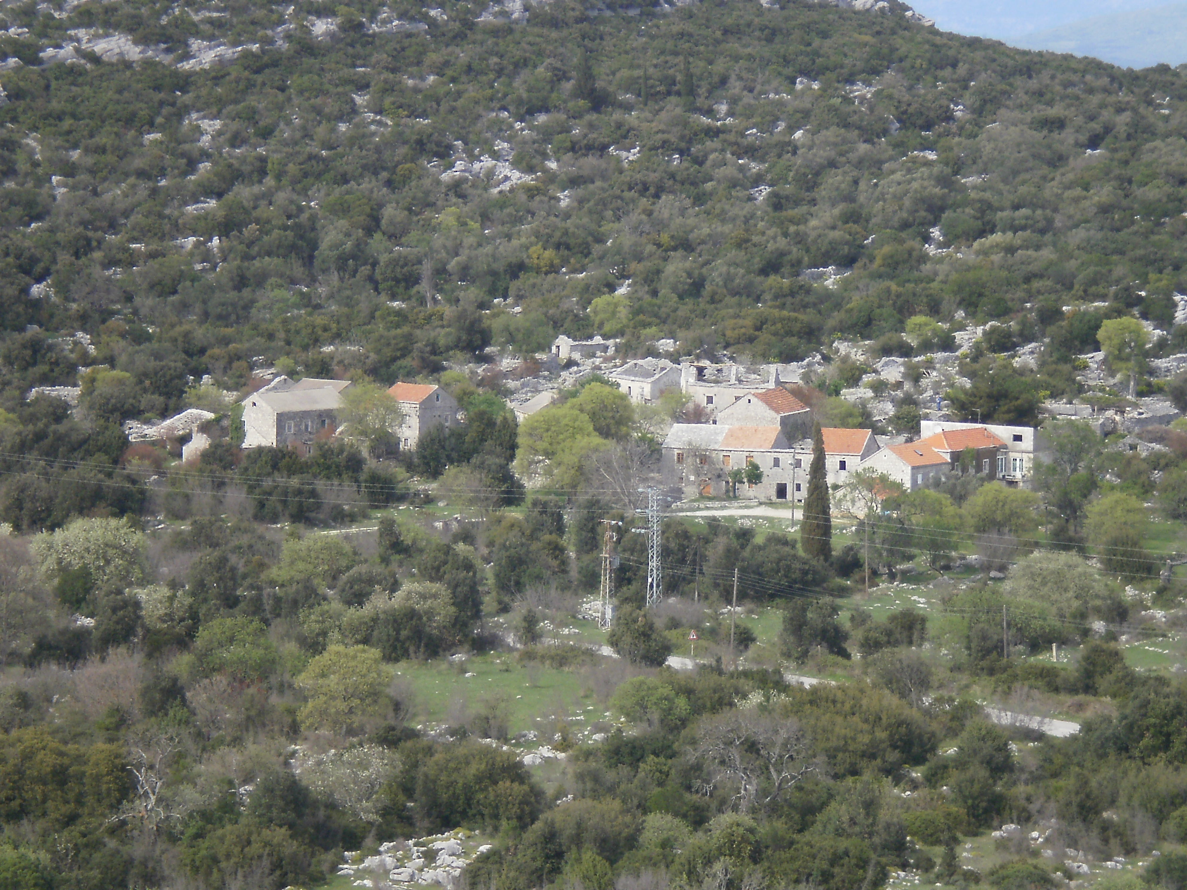 Panorama photo of Nakovana OLYMPUS DIGITAL CAMERA